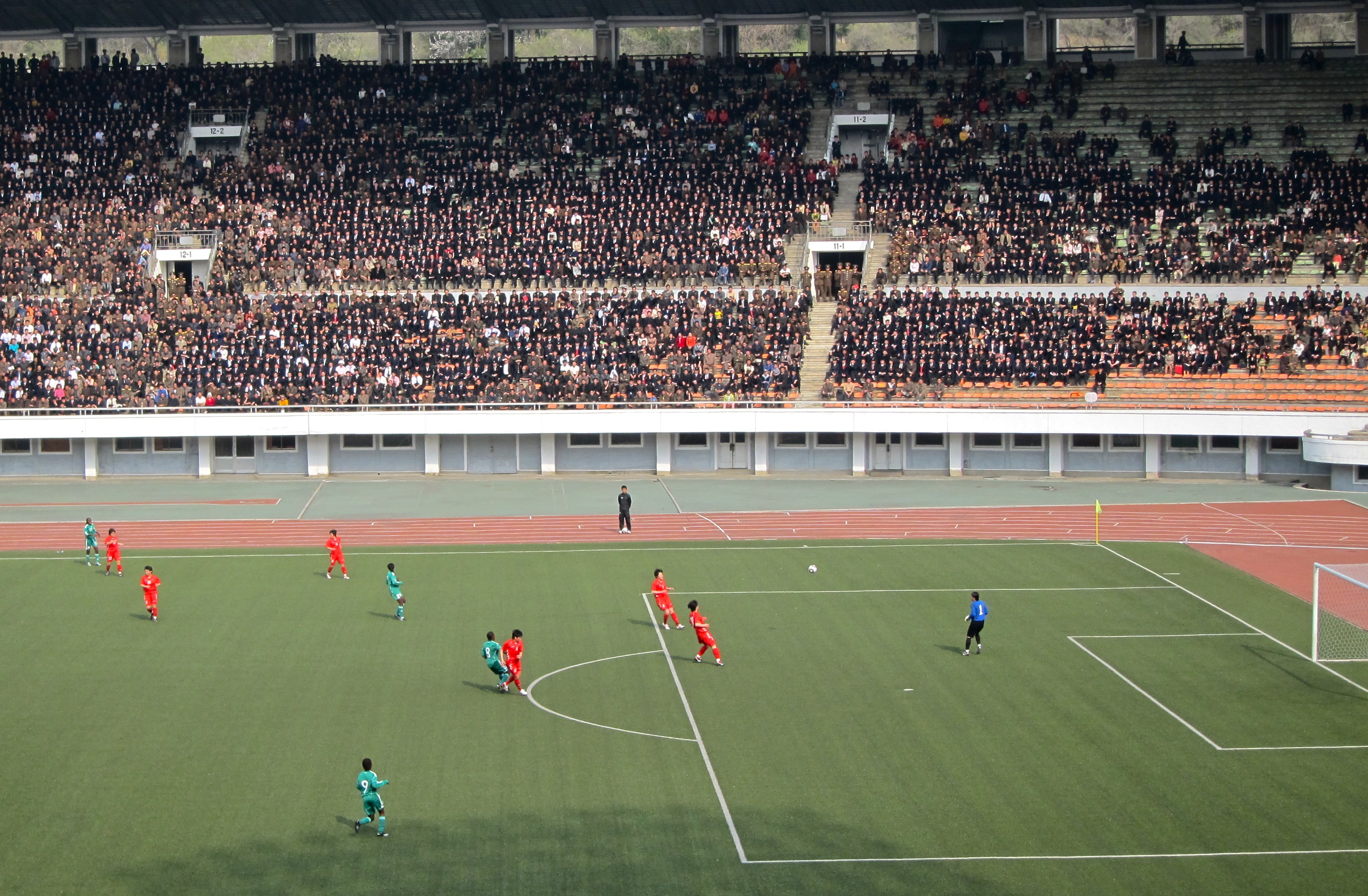 The DPRK women's team on the attack against the Nigerian women's team. The DPRK ultimately won the match 1-0, but the game was quite one sided with the DPRK making many shots on goal. If not for the outstanding performance of the Nigerian team goalie, the game would have been a blow-out.